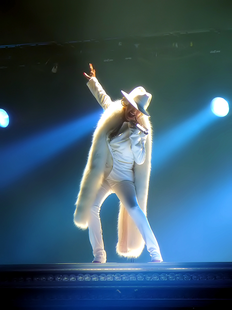 Christina Aguilera during a concert from her Back to Basics Tour